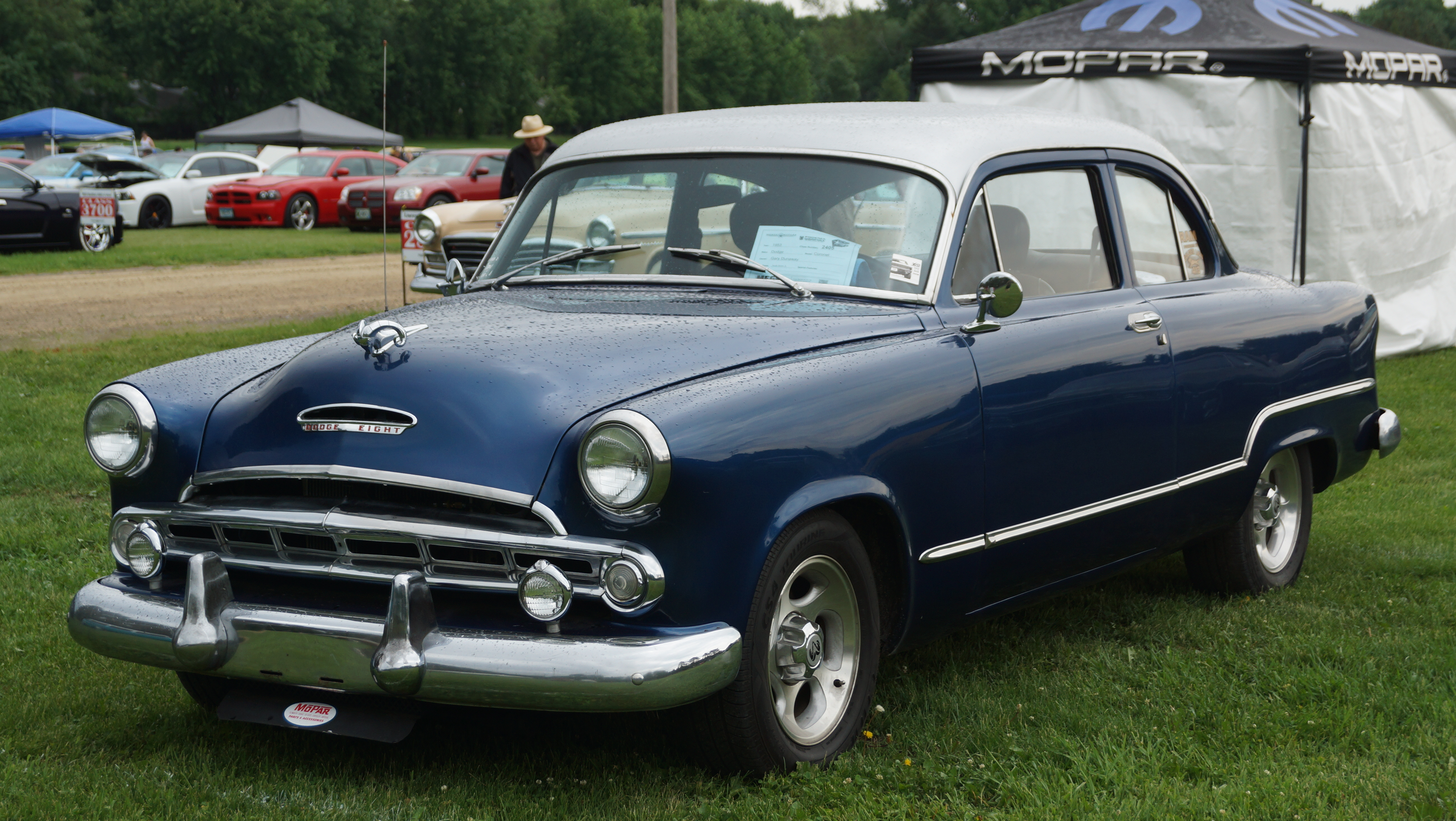 Midwest Mopars in the Park National Car Show & Swap Meet Dakota County Fairgrounds Farmington, Minntesota June 1-3, 2018 Click here for other years of Mopars in the Park. Click here for more car pictures at my Flickr site. Or here for my Car Crazy Tumblr site. Or on Twitter @DVS1mn.